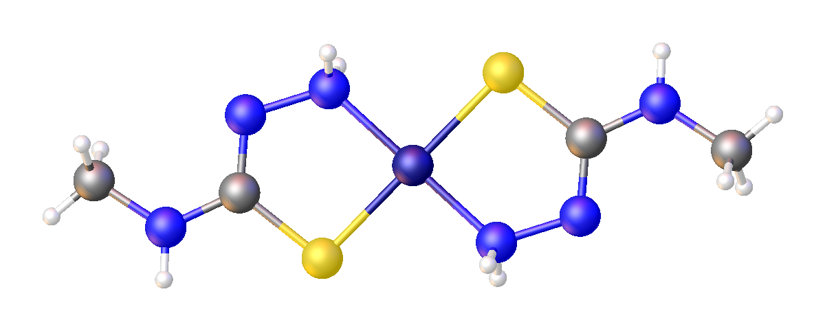 structure of Ni(H2NNCSNHMe)2